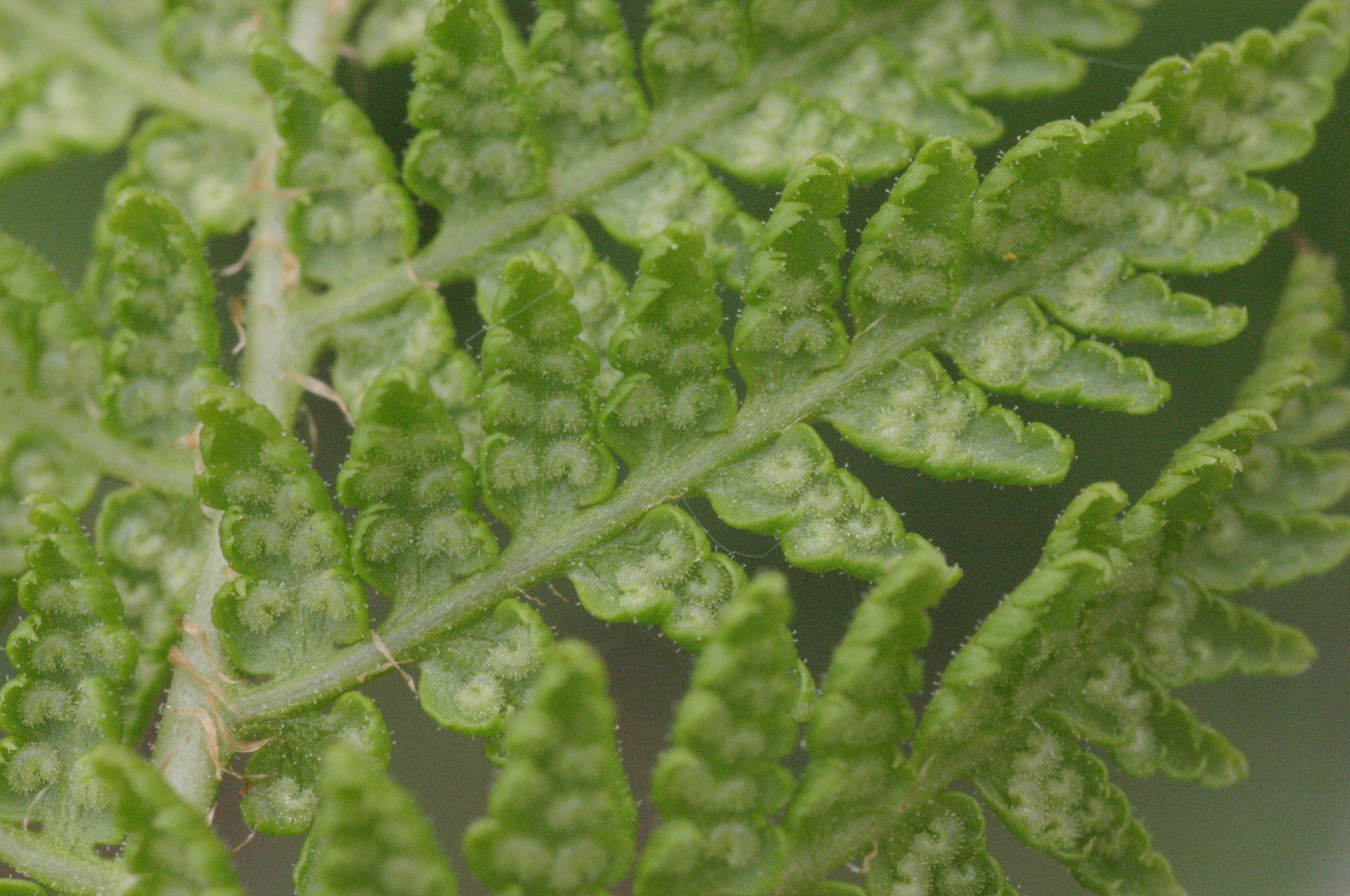 Dryopteris villarii